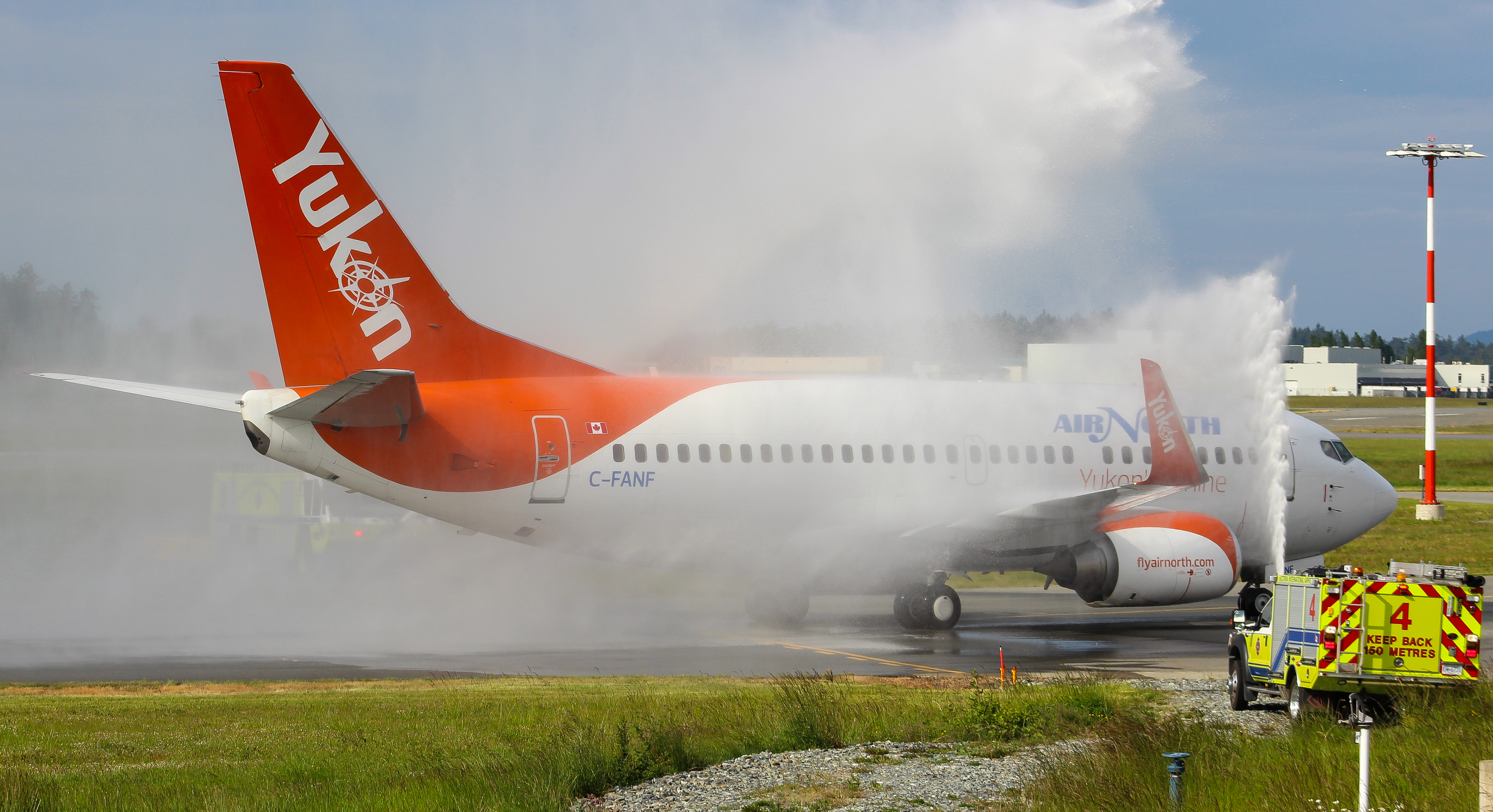 Air North Boeing 737-500 receiving a Water Cannon Salute by the YYJ Fire Department after completing the first scheduled flight from The Yukon to Vancouver Island